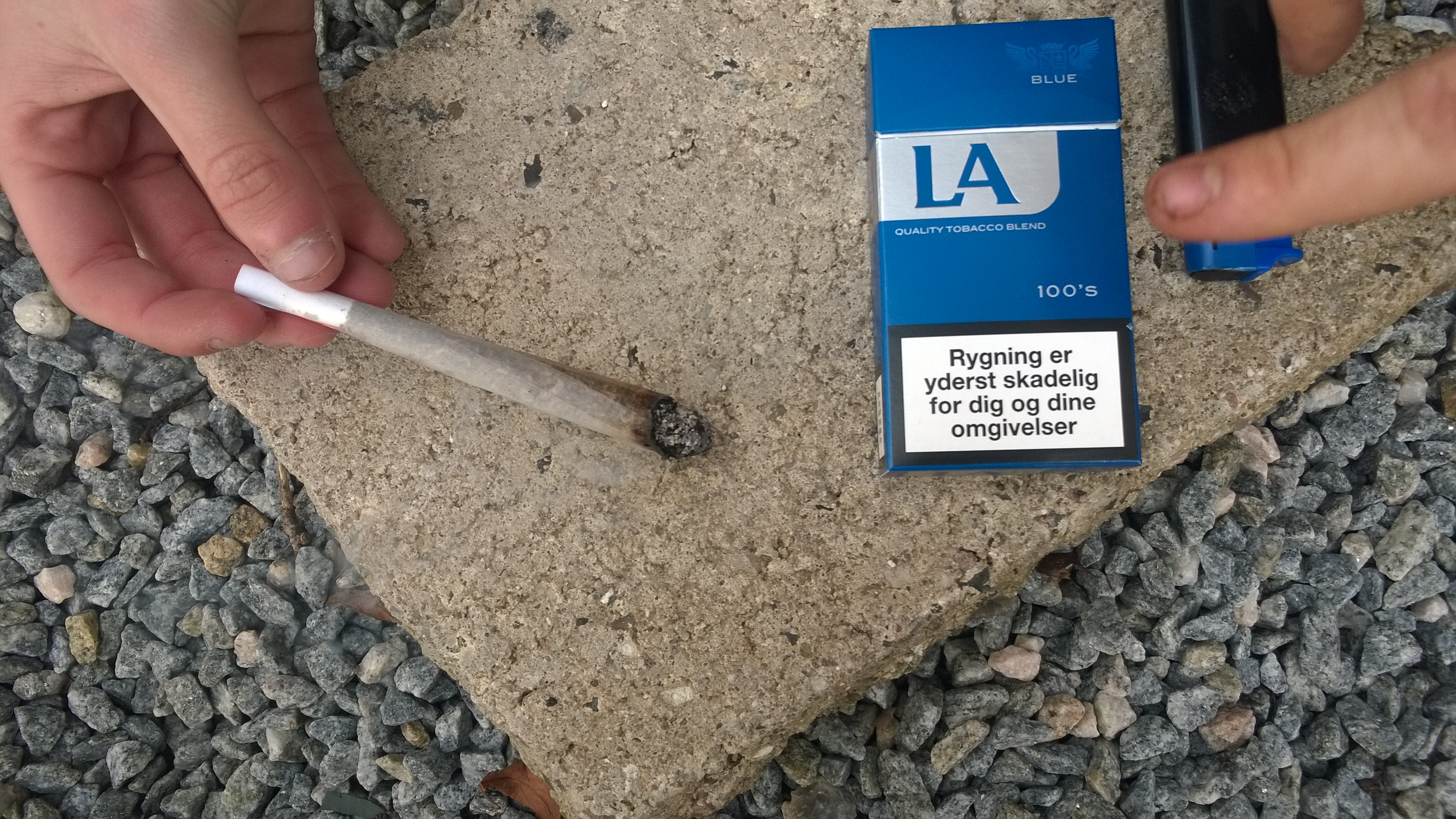 En typisk "joint"